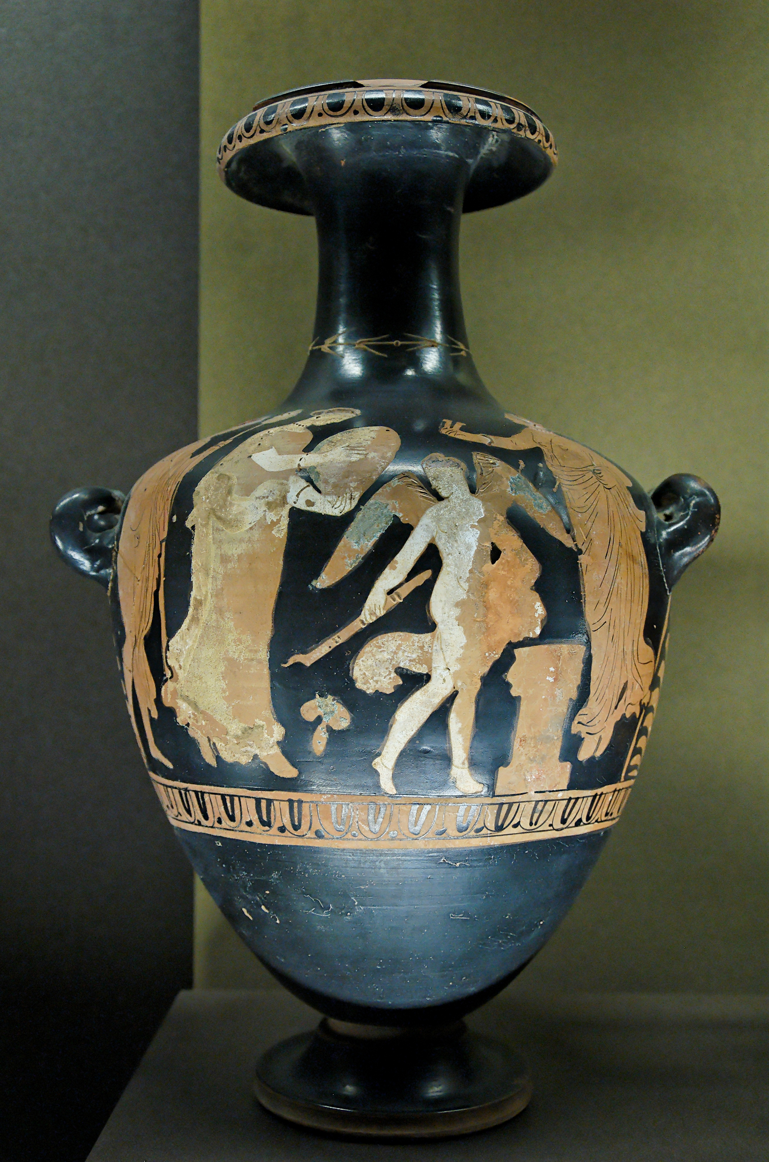 Dionysos (here unseen), maenads and Eros. Attic red-figure hydria in the Kerch style, ca. 375–350 BC. From Cyrenaica.